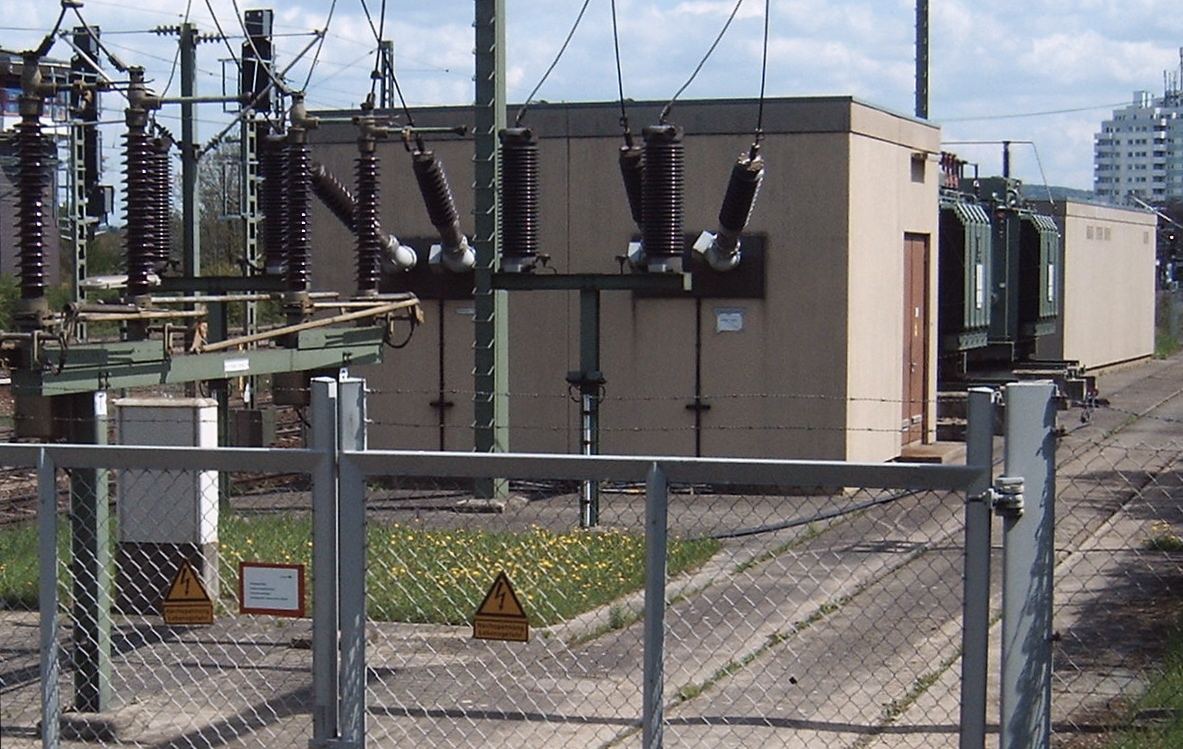 Transformer station for train power supply, Waiblingen, Germany.